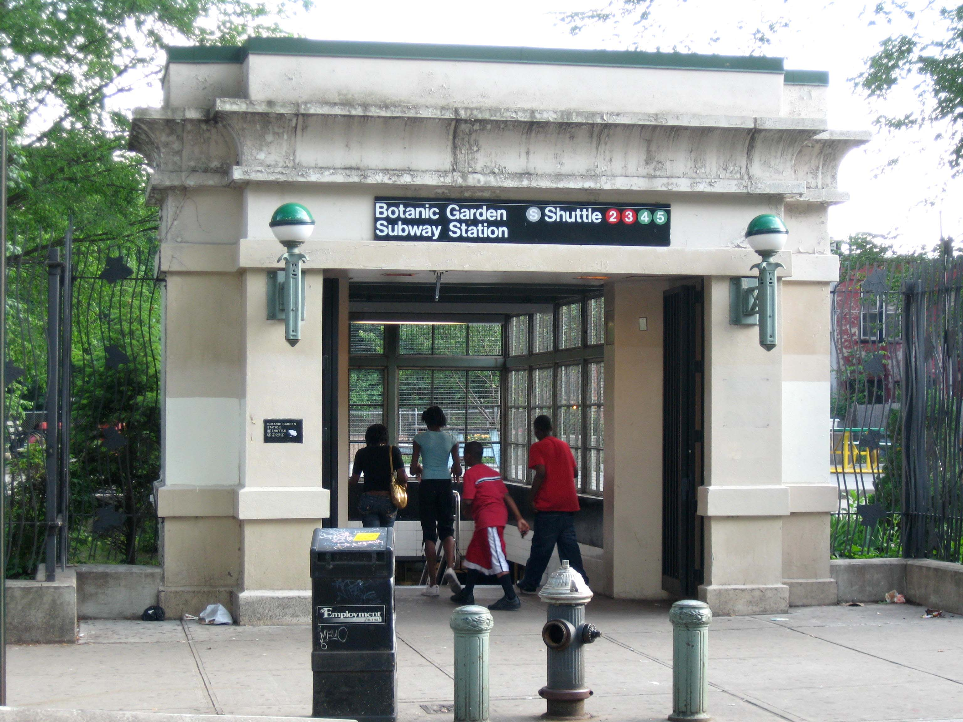 Looking south from bike lane of Eastern Parkway at head house of Franklin Avenue–Botanic Garden (New York City Subway) on a sunny late afternoon.